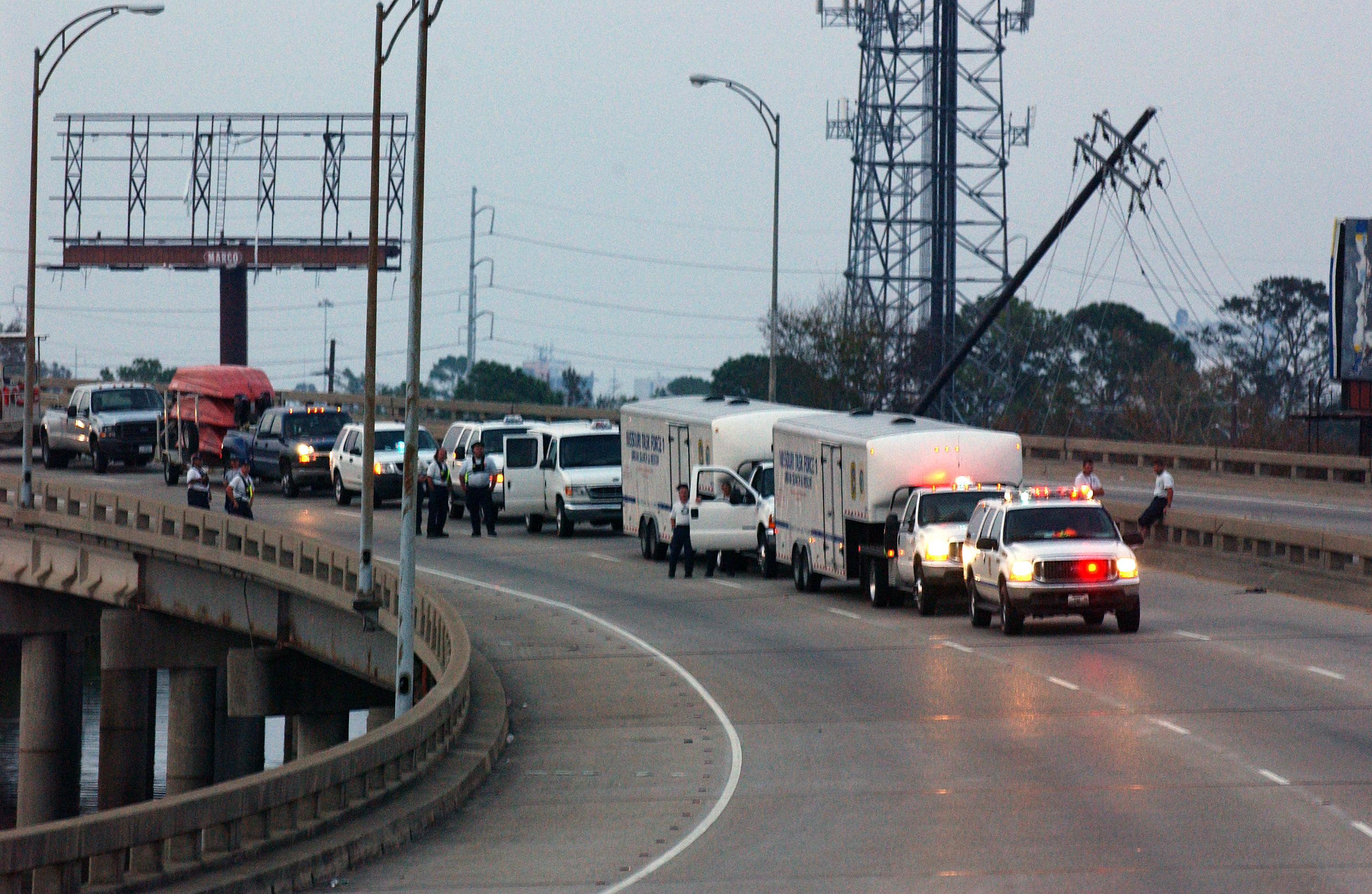 New Orleans, LA, September 3, 2005 -- FEMA Urban Search and Rescue task force members of Missouri Task Force One form a caravan after working in areas impacted by Hurricane Katrina. Jocelyn Augustino/FEMA